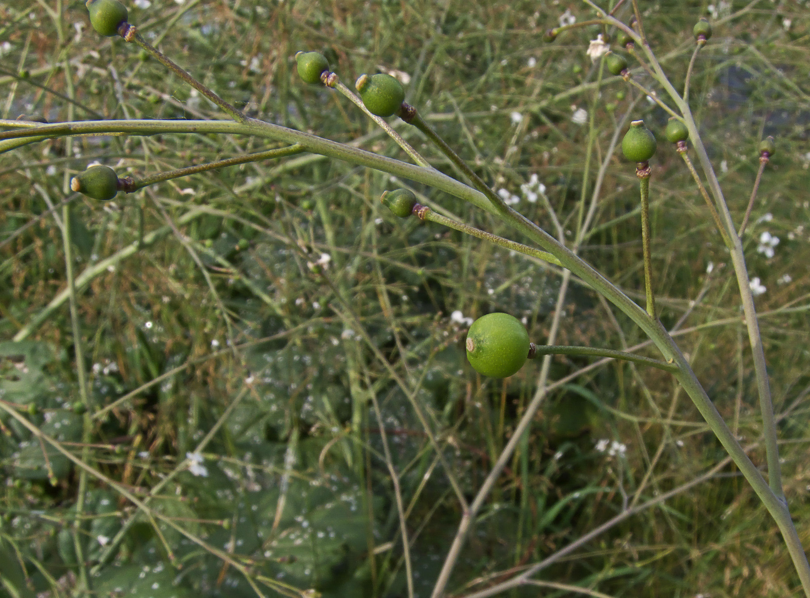 Crambe cordifolia fruit